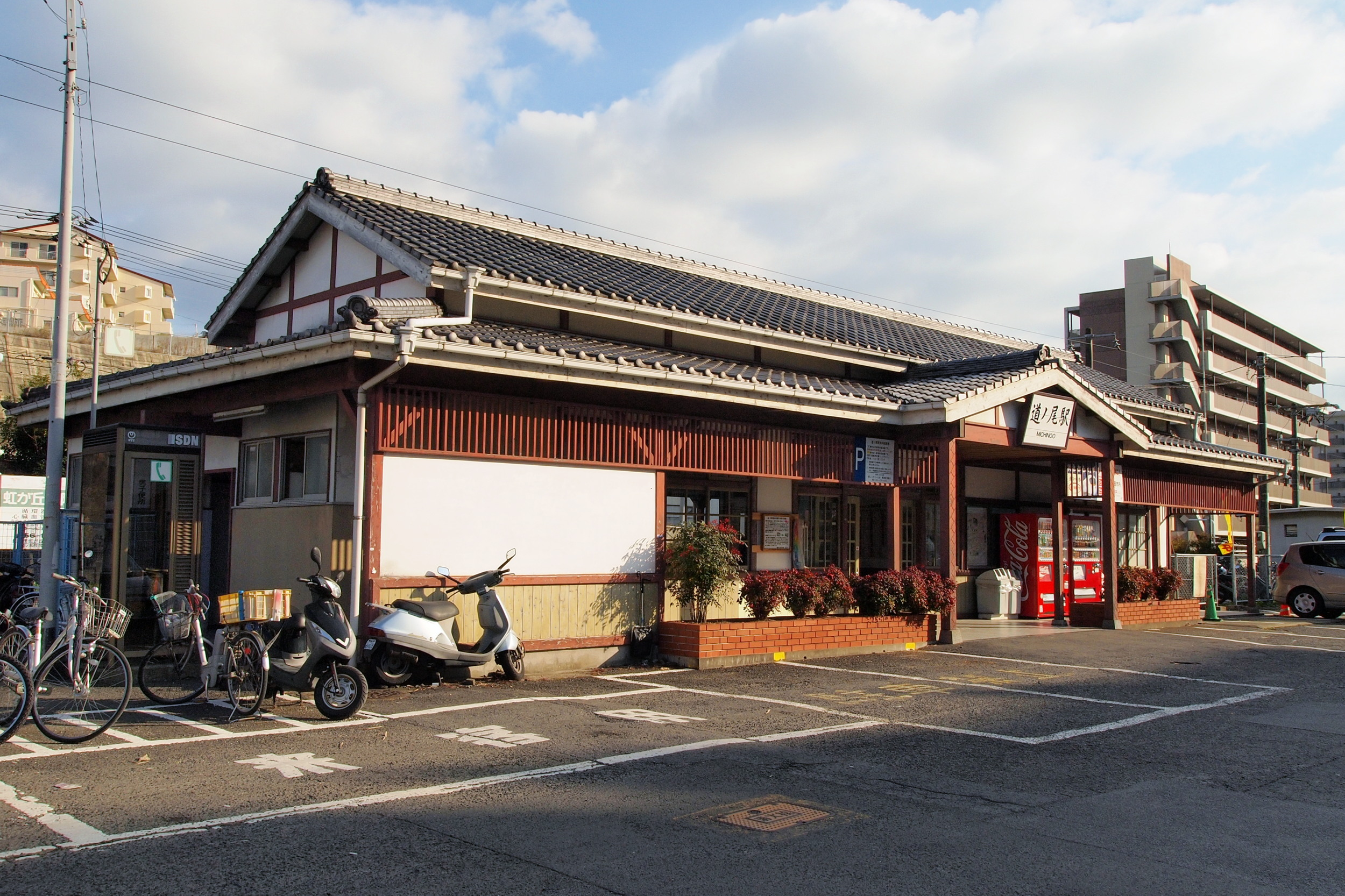 Michinoo Station on JR Kyushu Nagasaki Main Line, in Nagasaki City, Nagasaki Prefecture, Japan